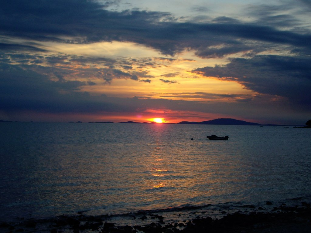 Gajac, Pag island, Croatia Copyright 2006 Michael R. Davis, User:Mrdvt92, Pentax Optio, provided to Wikipedia under GFDL, Picture taken in Gajac, Pag, Croatia, 28 Aug 2006.